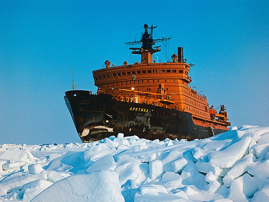 “Nuclear icebreaker Arktika”. The nuclear-powered icebreaker Arktika in the Kara Sea